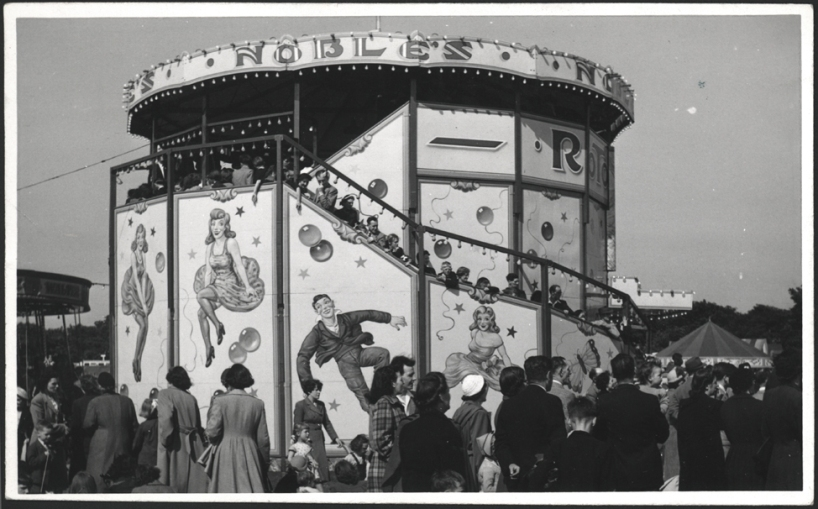 Newcastle Town Moor 1952, people queuing for the rides at the Hoppings. The Hoppings is a popular fair in the North East of England, held in the last full week of June every year on Newcastle's Town Moor, spanning around 40 acres of land. The Hoppings started out as a Temperance Festival in 1882, when Newcastle Temperance organisations decided to revive the annual gatherings that they had previously held, but included different festivities to coincide, to counter-attract the 'Summer Race Meeting' at Gosforth Park, which was seen as a source of drunkenness. It proved to be a great success and the fair is still being enjoyed to this very day. Ref: TWAS:944/2432 (Copyright) We're happy for you to share this digital image within the spirit of The Commons. Please cite 'Tyne & Wear Archives & Museums' when reusing. Certain restrictions on high quality reproductions and commercial use of the original physical version apply though; if you're unsure please . To purchase a hi-res copy please quoting the title and reference number.